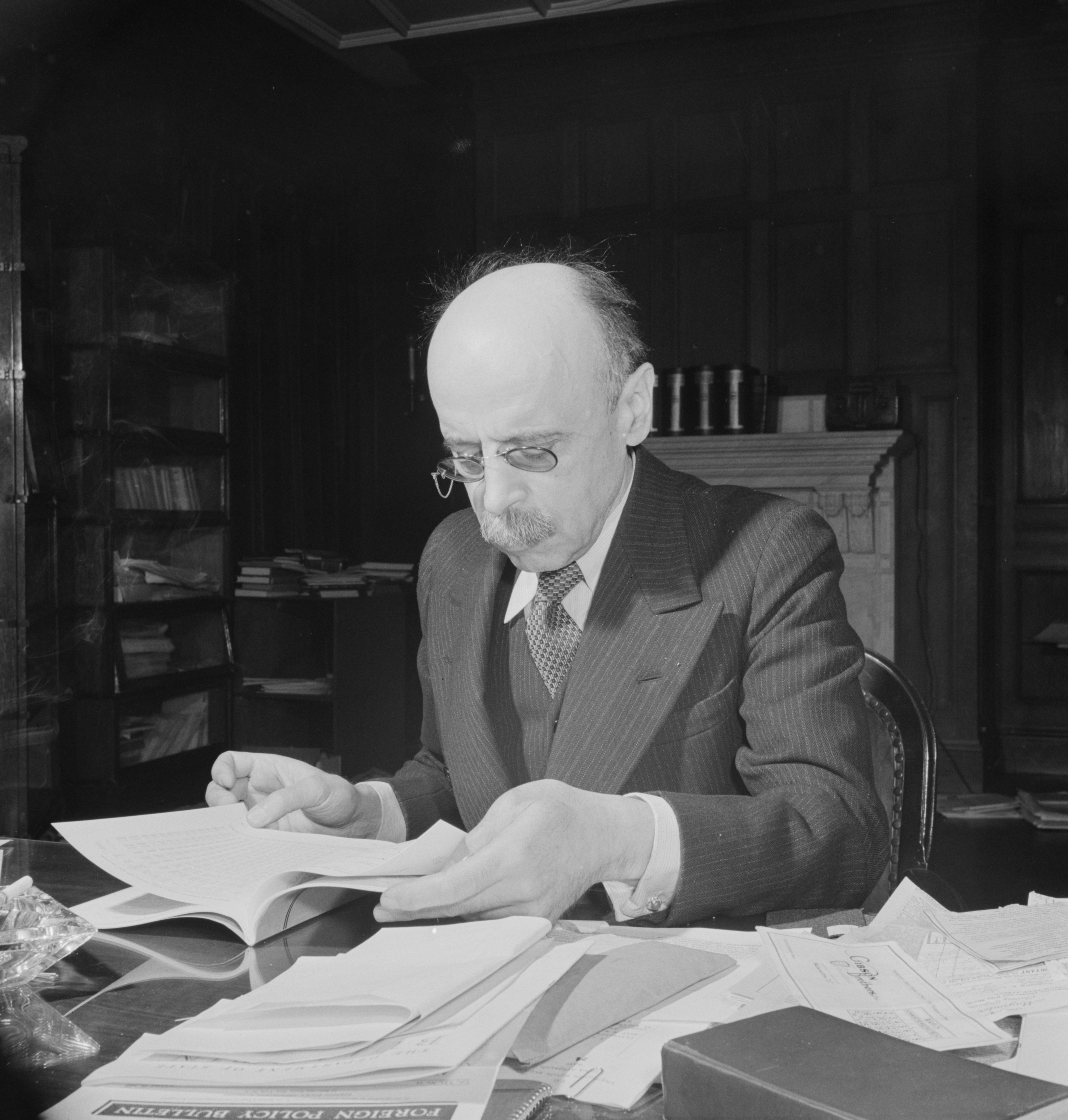 Washington, D.C. The Turkish Embassy. Ambassador Ertrogren [i.e., Ertegun] at work at his desk